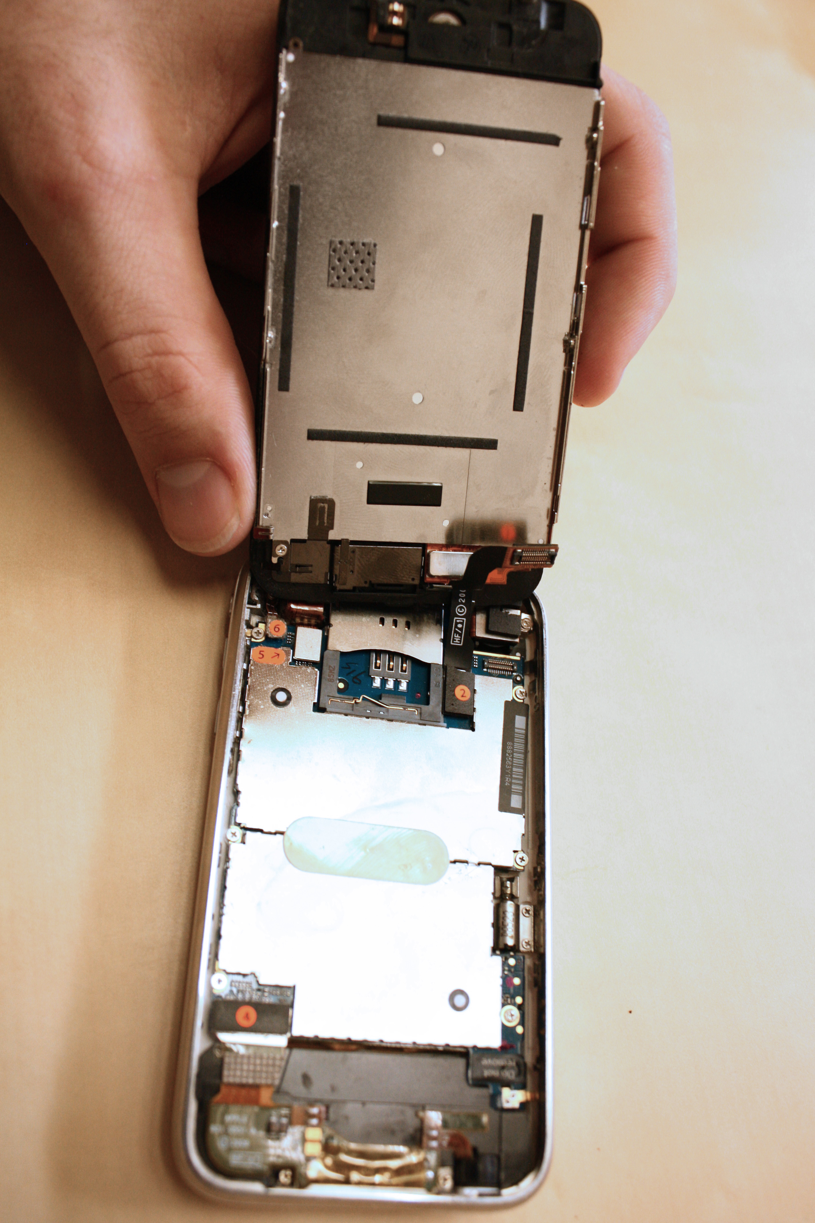 Last week my iPhone fell into a cup of water and sat there for about 15 seconds. When I pulled it out it was all screwed up. I took it apart, dried everything put it back together. Now it's as good as new and taking it apart and resetting the ribbon cables mysteriously fixed a bunch of dead pixels